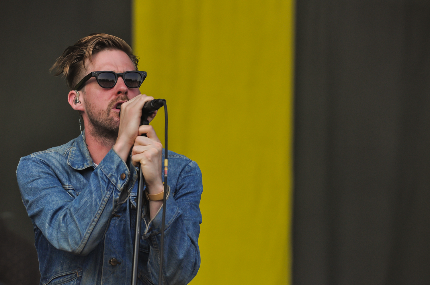 Kaiser Chiefs performing at Greenville Festival 2013